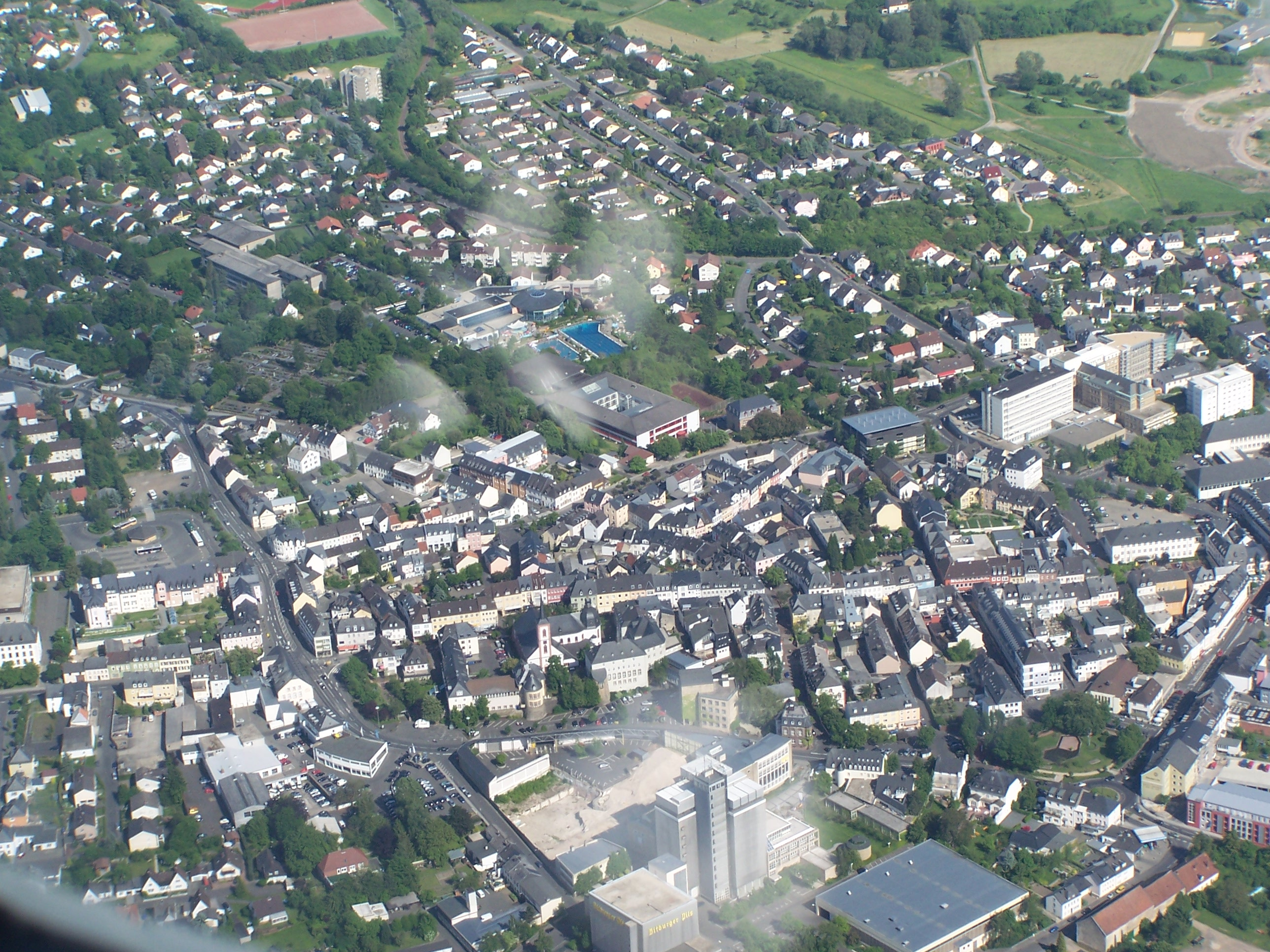 I made the picture by myself. It shows the center of Bitburg (the area of the old roman castle) und the old part of the brewery.